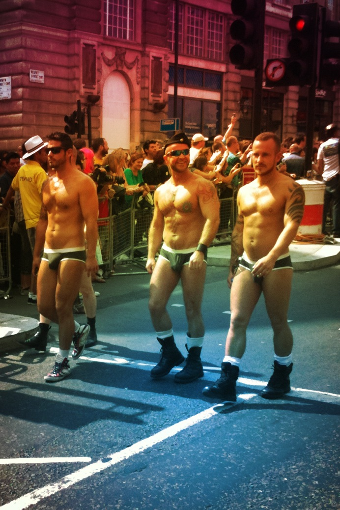 Pride London 2011